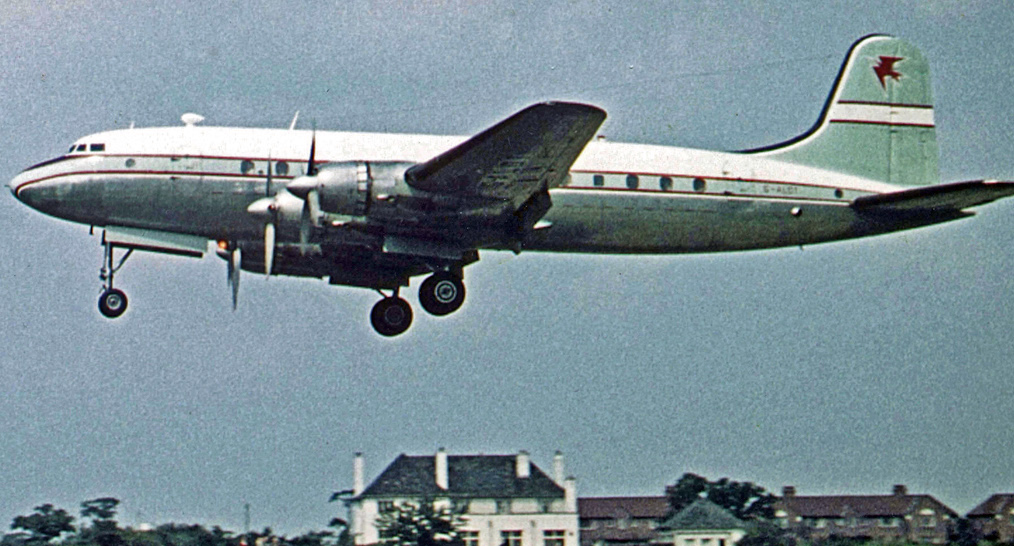 Handlay Page HP.81 Hermes 4 G-ALDT of Air Safaris but wearing the remains of Skyways colour scheme at Manchester (Ringway) Airport